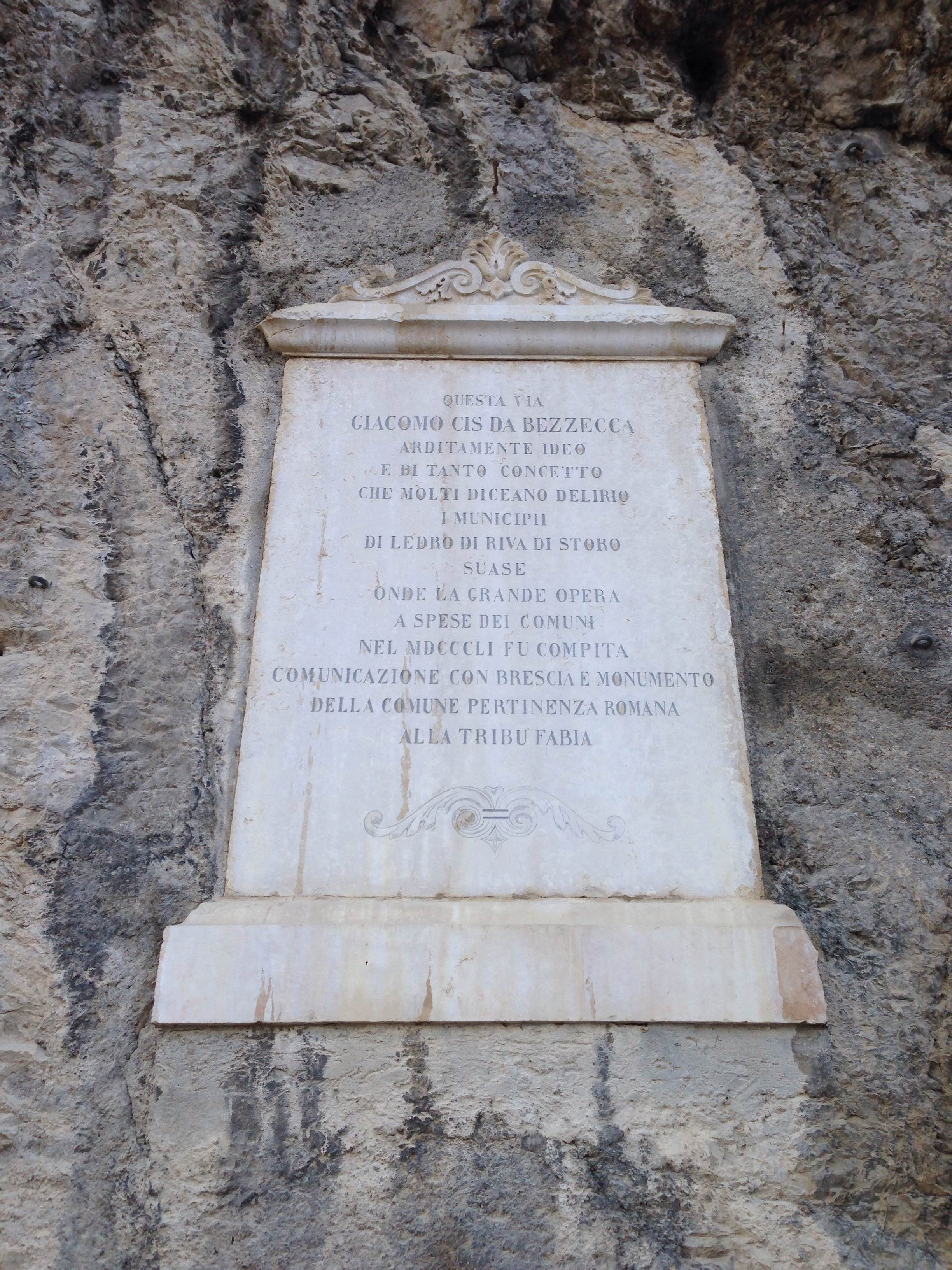 Plaque commemorating Giacomo Cis on the Ponale Road over looking Lake Garda, Italy.